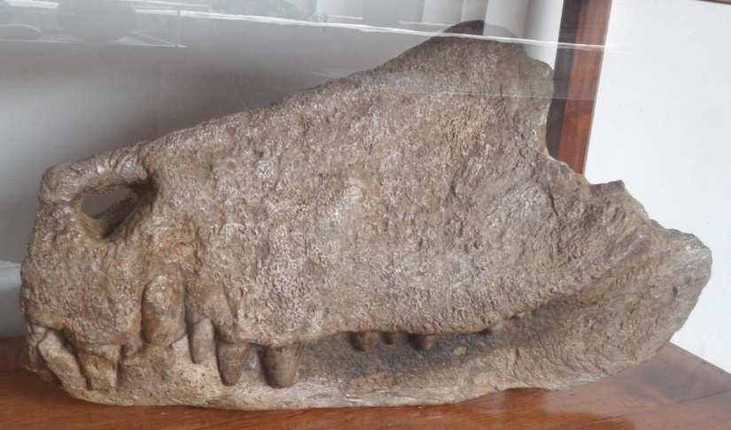 The holotype fossil of Barinasuchus arveloi, found in the El Socó creek, a remarkable paleontological finding of the Los Llanos region of Venezuela.